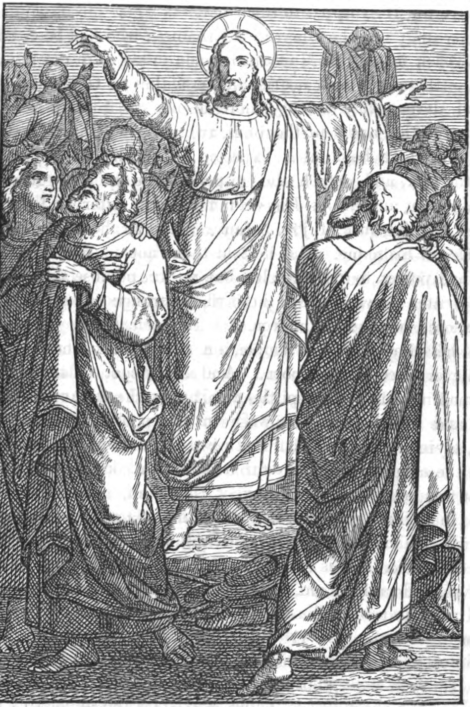 Jesus sends out 70 disciples.